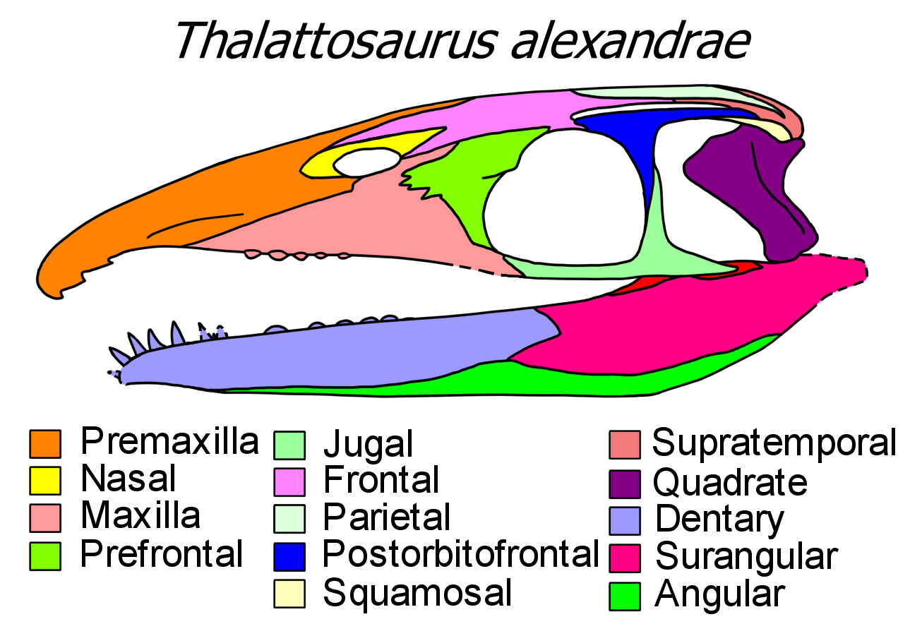 A color-coded skull diagram of Thalattosaurus alexandrae, redrawn from a diagram published by Nicholls (1999). Dotted lines indicate missing bone. The surangular incorporates an articular. The prefrontal may involve a fused lacrimal, the postorbitofrontal is a fusion of the postorbital and postfrontal, and the coronoid is colored in deep red.